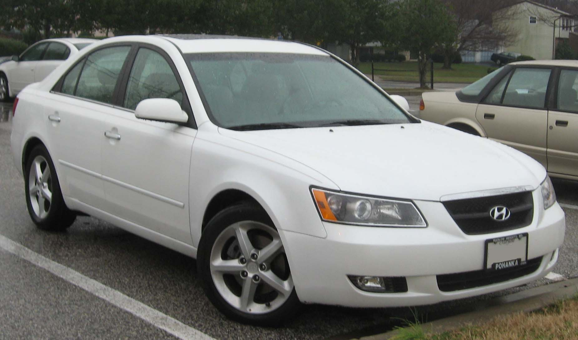 2006-2008 Hyundai Sonata photographed in Fort Washington, Maryland, USA.